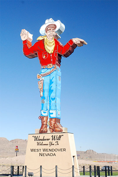 "Wendover Will," the 64-foot-tall neon sign that serves as the symbol for the city of West Wendover, Nevada. September 2007. View to east. Uploaded by Mark Hufstetler, photographer, and released under Creative Commons license (with attribution).